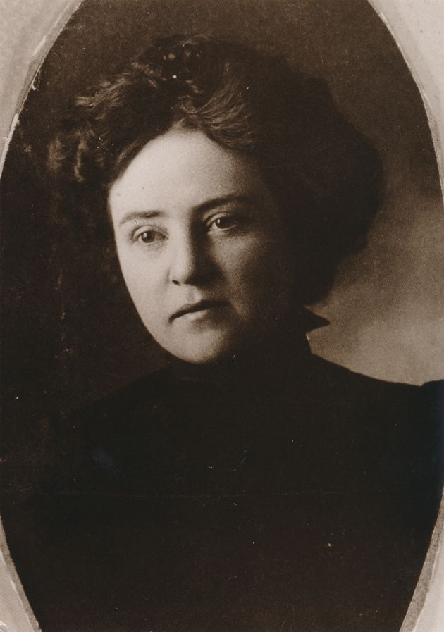 Ann Bassett Willis, Queen of the Outlaws, circa 1904